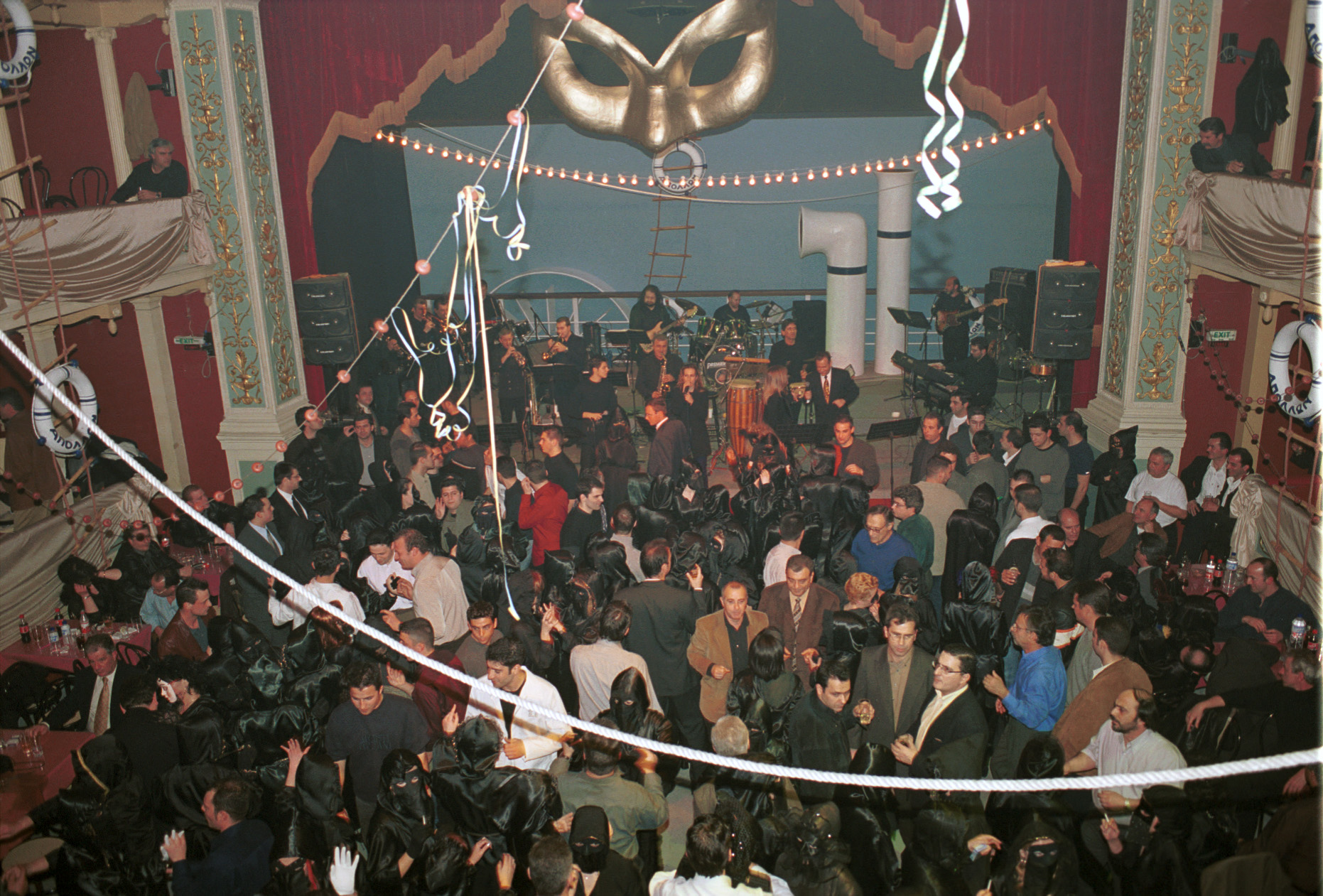 Drini 19:46, 10 December 2006 (UTC)